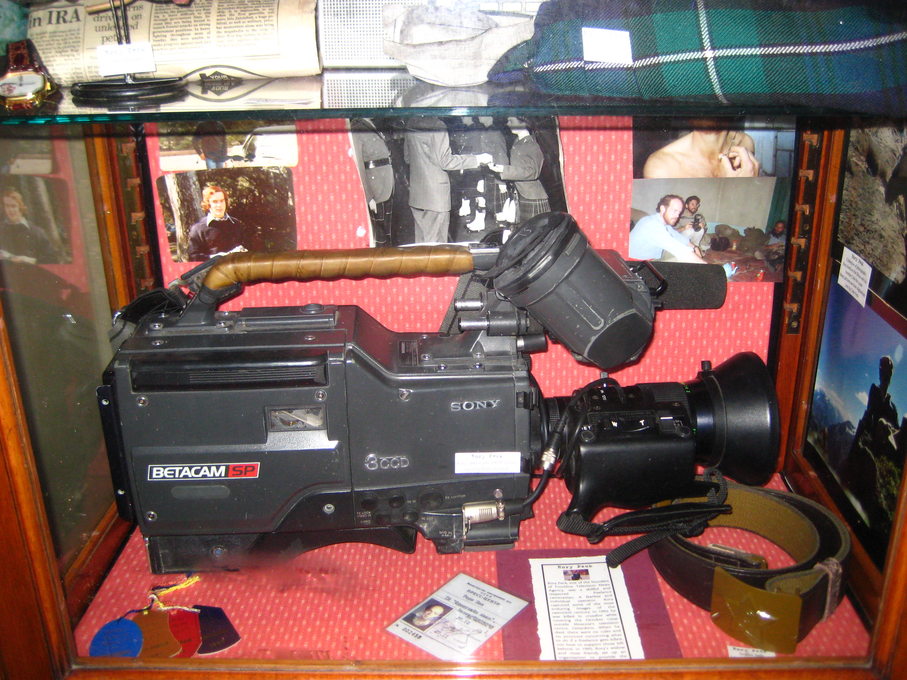 Display of at the Frontline Club in London, England featuring Rory Peck's Sony Betacam SP camera and Russian press pass.